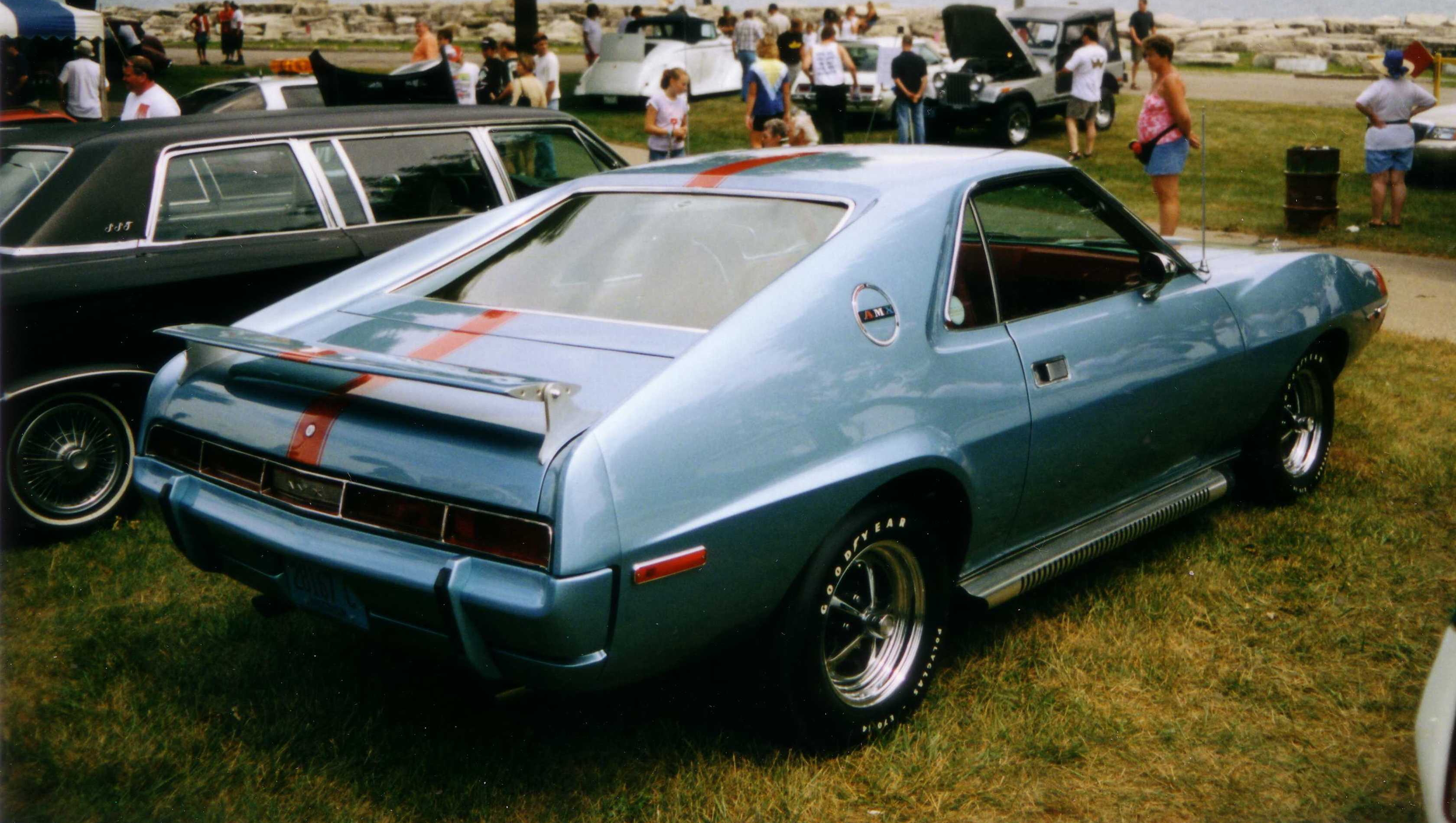 American Motors Corporation (AMC) AMX concept car (for 1971) that was prepared by American Motors' vice president for styling, Richard A. Teague, who wanted to continue the two-seat sports model. Photograph taken at the AMC 100th Anniversary Celebration of the Rambler meet in Kenosha, Wisconsin.